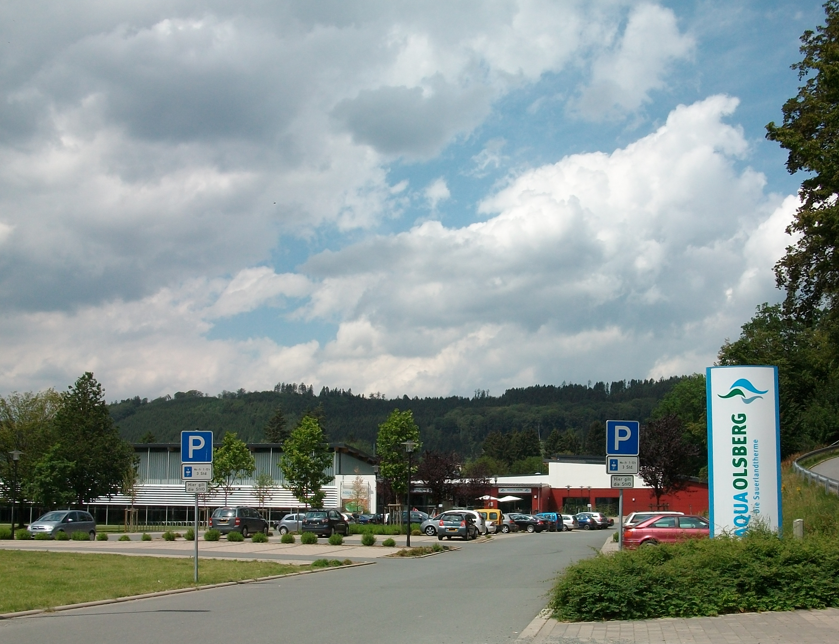 AQUA Olsberg (Germany)